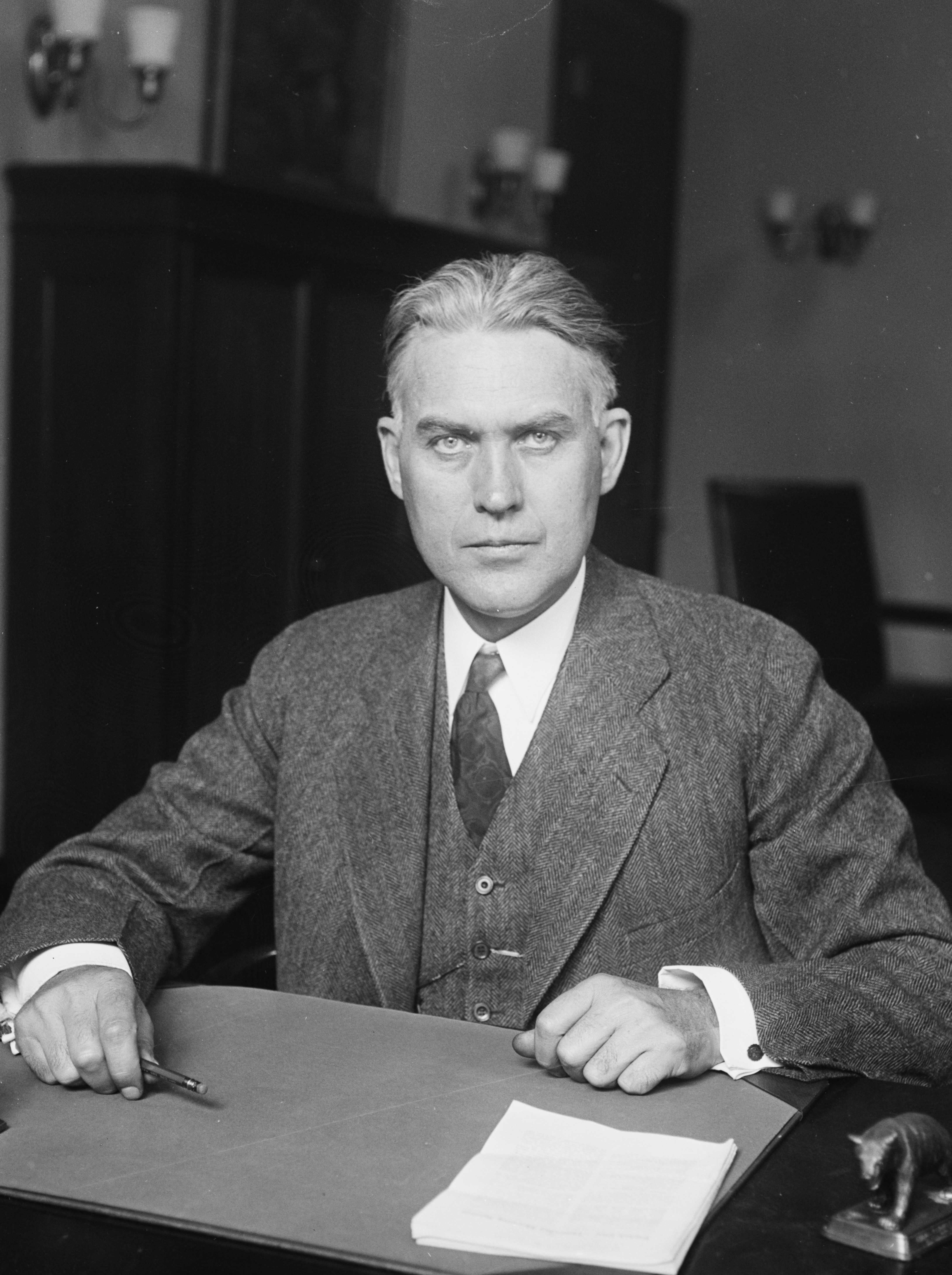 Title: U.S. Senator Henry Shipstead. Abstract/medium: 1 negative : glass ; 4 x 5 in. or smaller